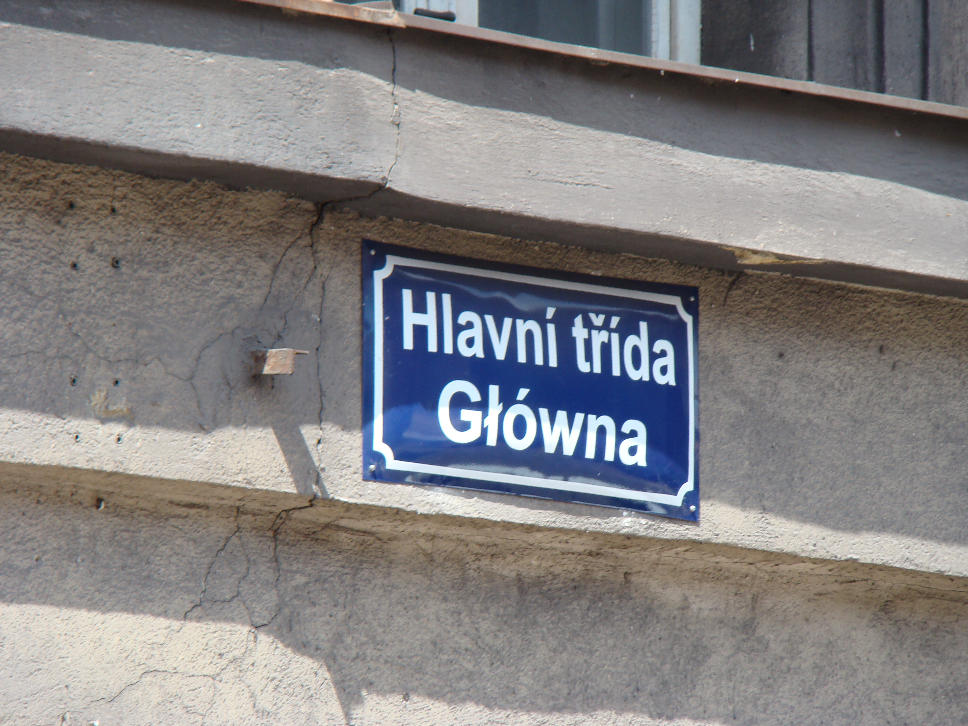 Bilingual (Czech and Polish) street sign in Český Těšín (Czeski Cieszyn)